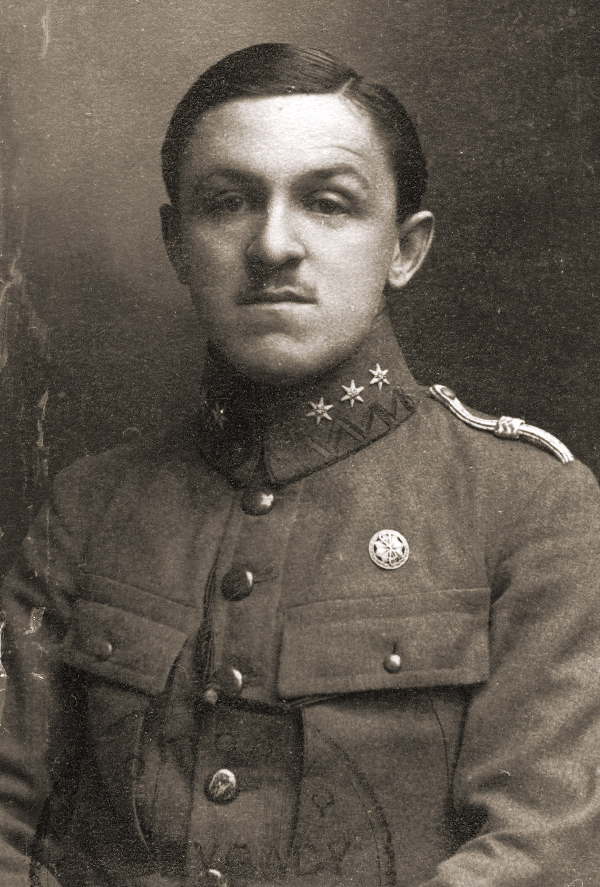 Tadeusz Piskor (1889 - 1951) - General of the Polish Army